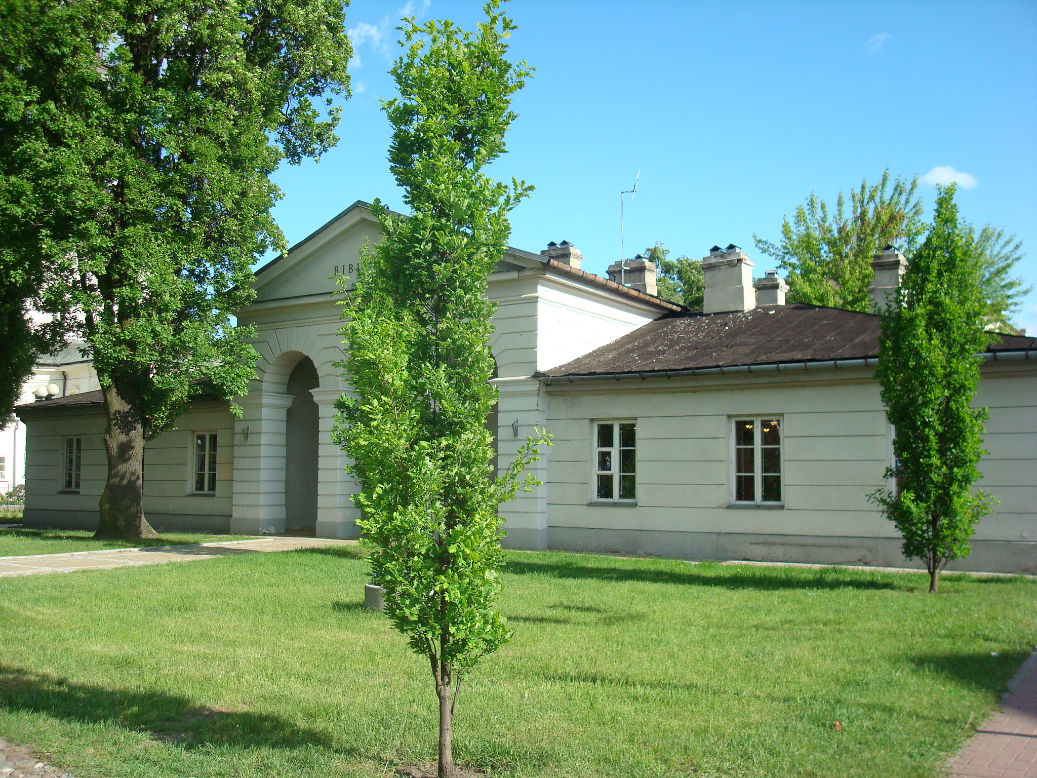 City public library in Siedlce